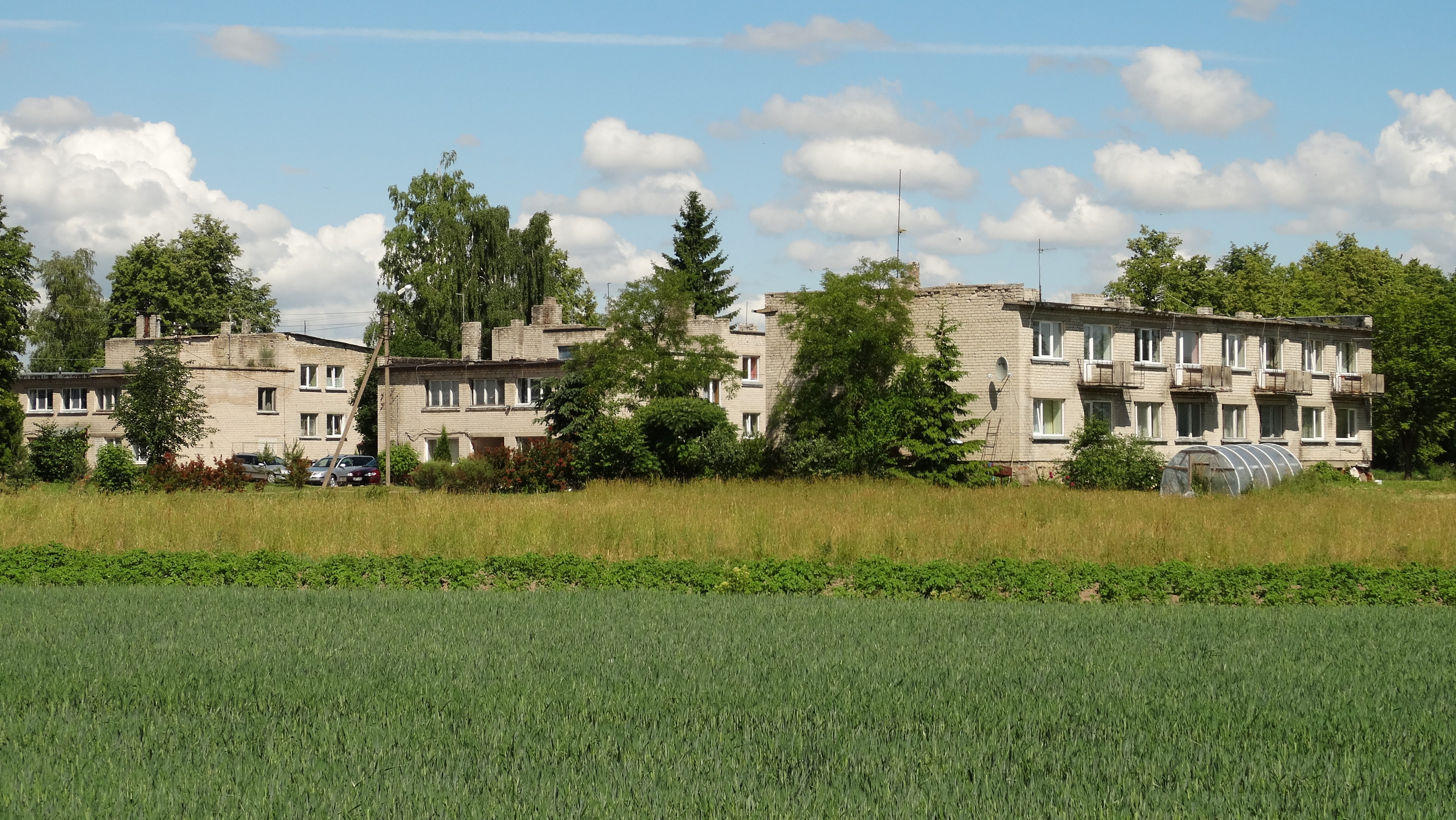 Didžiuliai, Raseiniai district, Lithuania